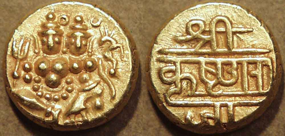 Gold pagoda of the king of Mysore Krishnaraja Wodeyar III (1799-1868)